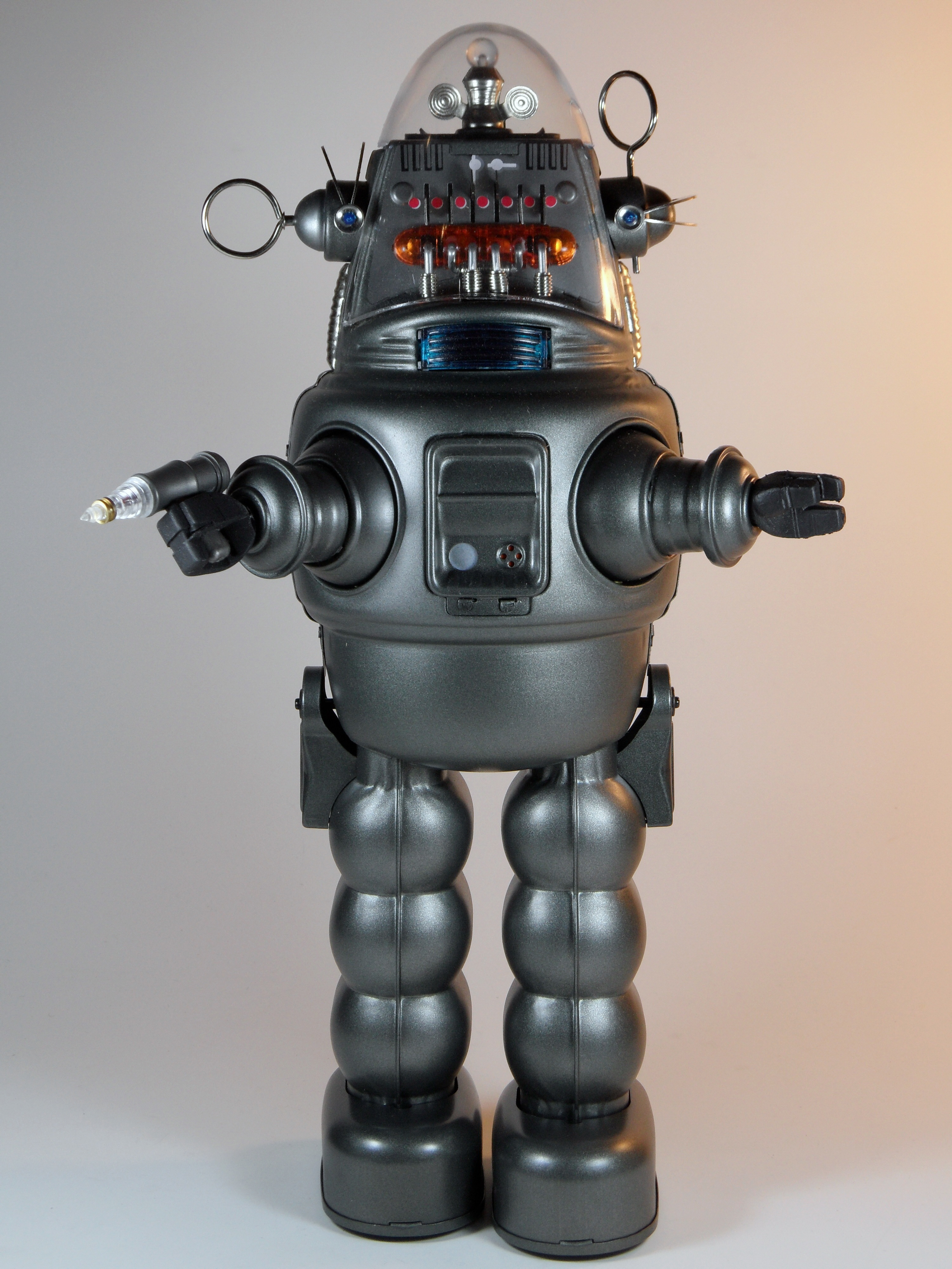 More pictures of My Toy Museum's at Flickr. Most of those toys do still have copyrights so i can't publish them here!